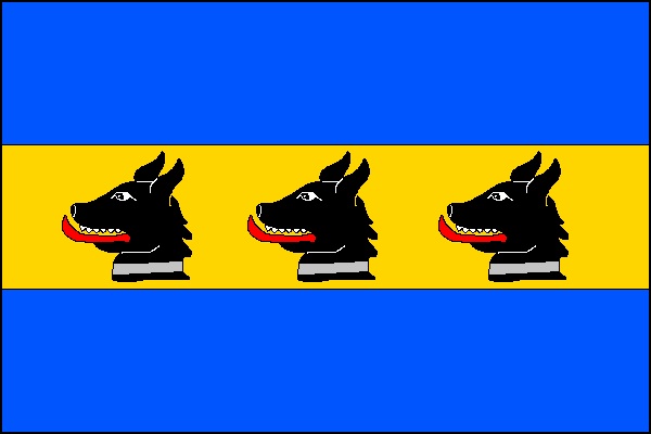 Municipal flag of Branov , District Rakovník, Czech Republic